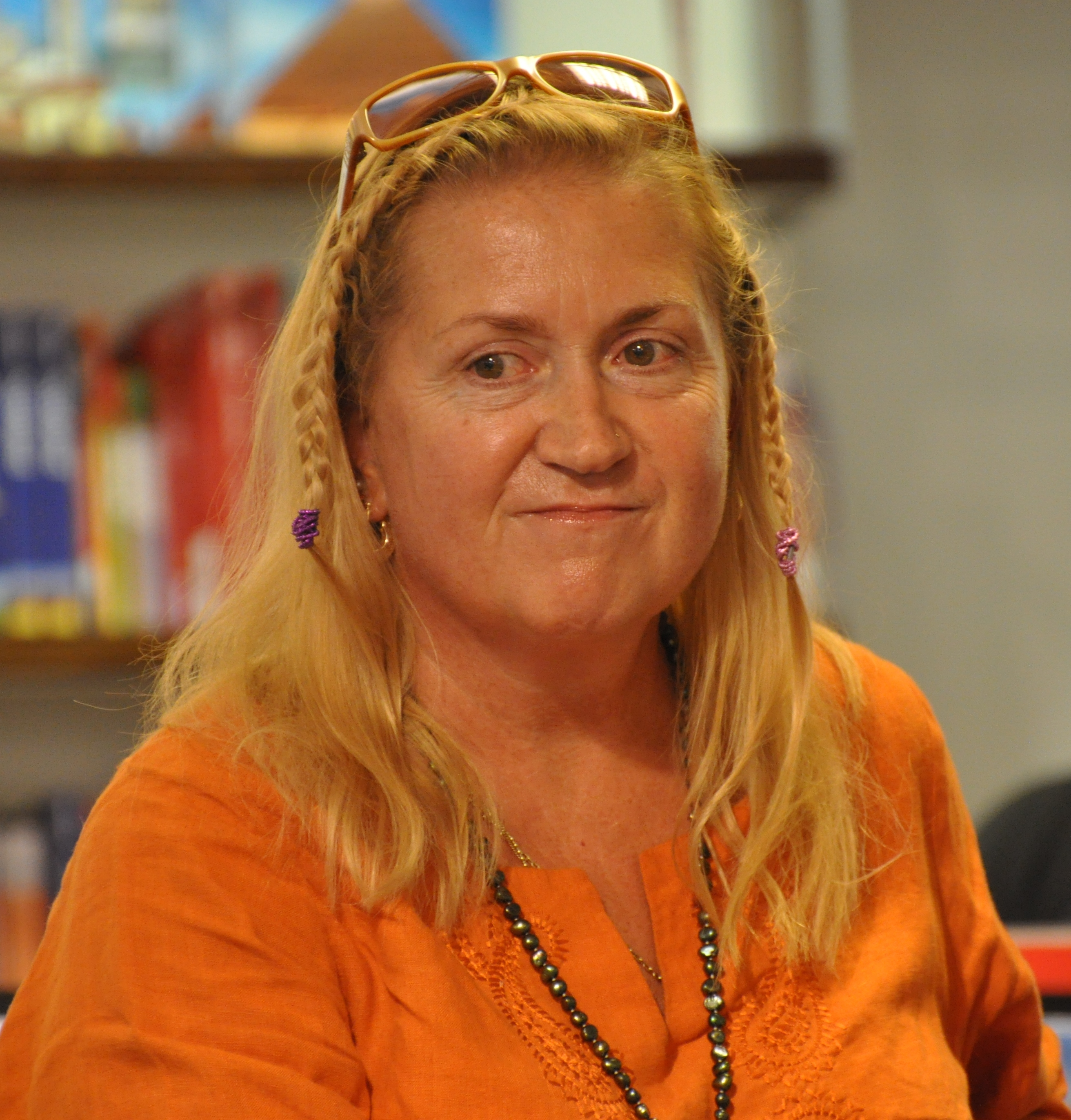 Finnish writer Anja Snellman on the Night of the Arts in Turku 2010.